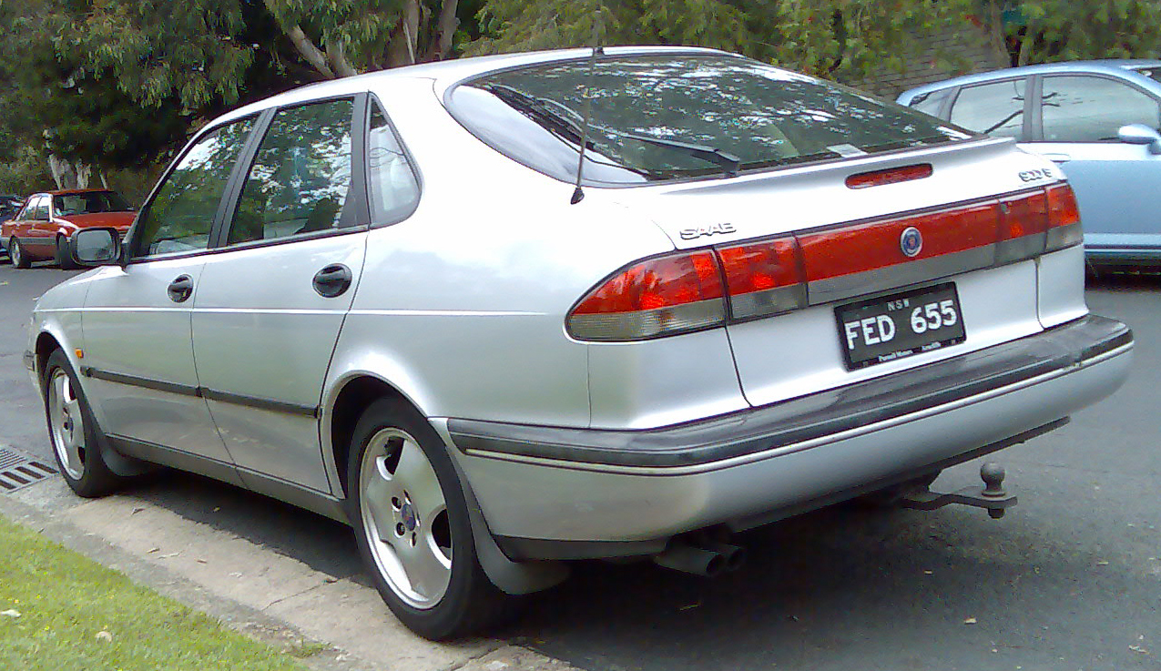 1996–1998 Saab 900 (MY97) S 5-door hatchback. Information about the MY97 update from: [1]. Photographed in New South Wales, Australia.